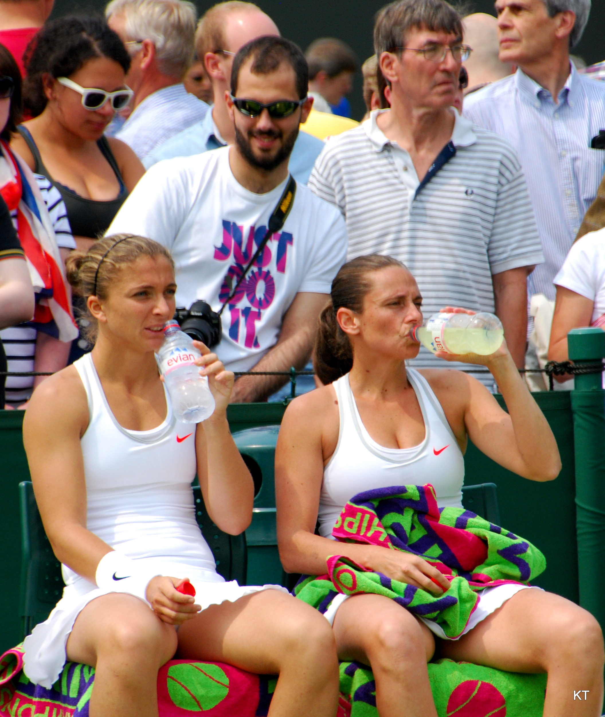 I think that's a Sara Errani fan in the crowd. ;-)